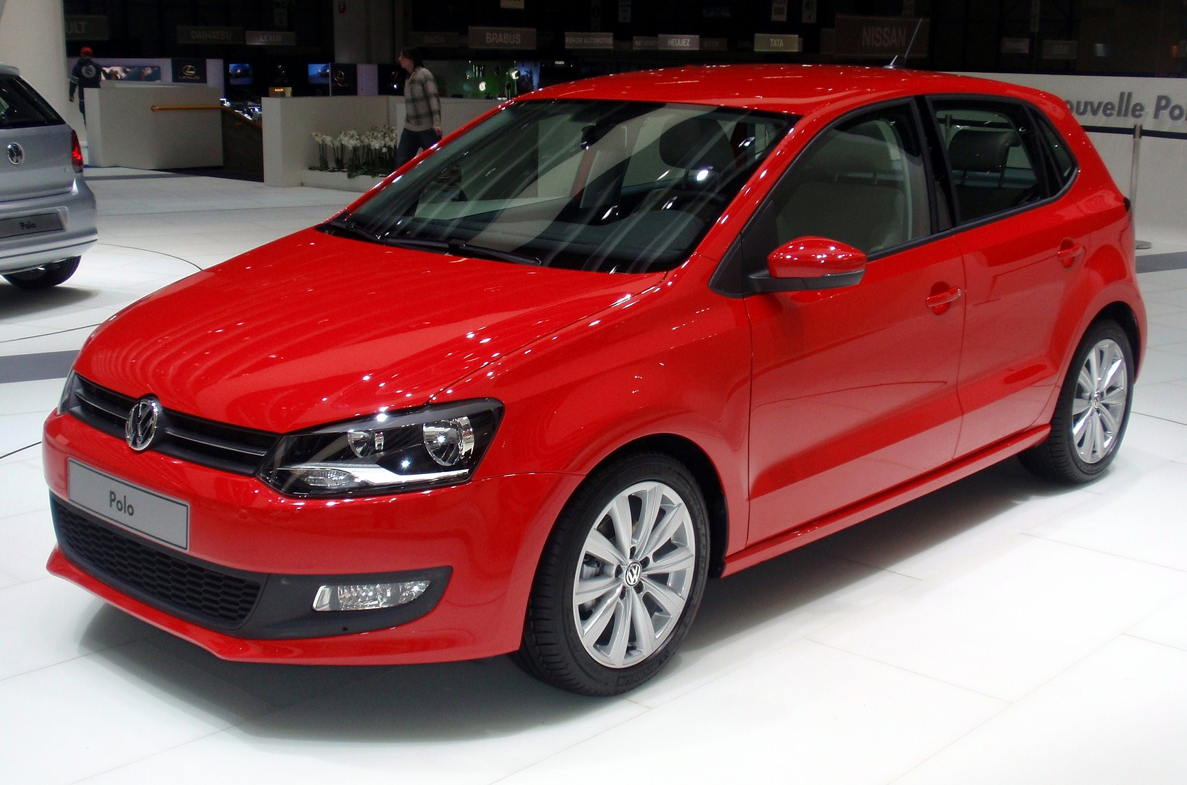 VW Polo MkV at the 2009 Geneva Motor Show